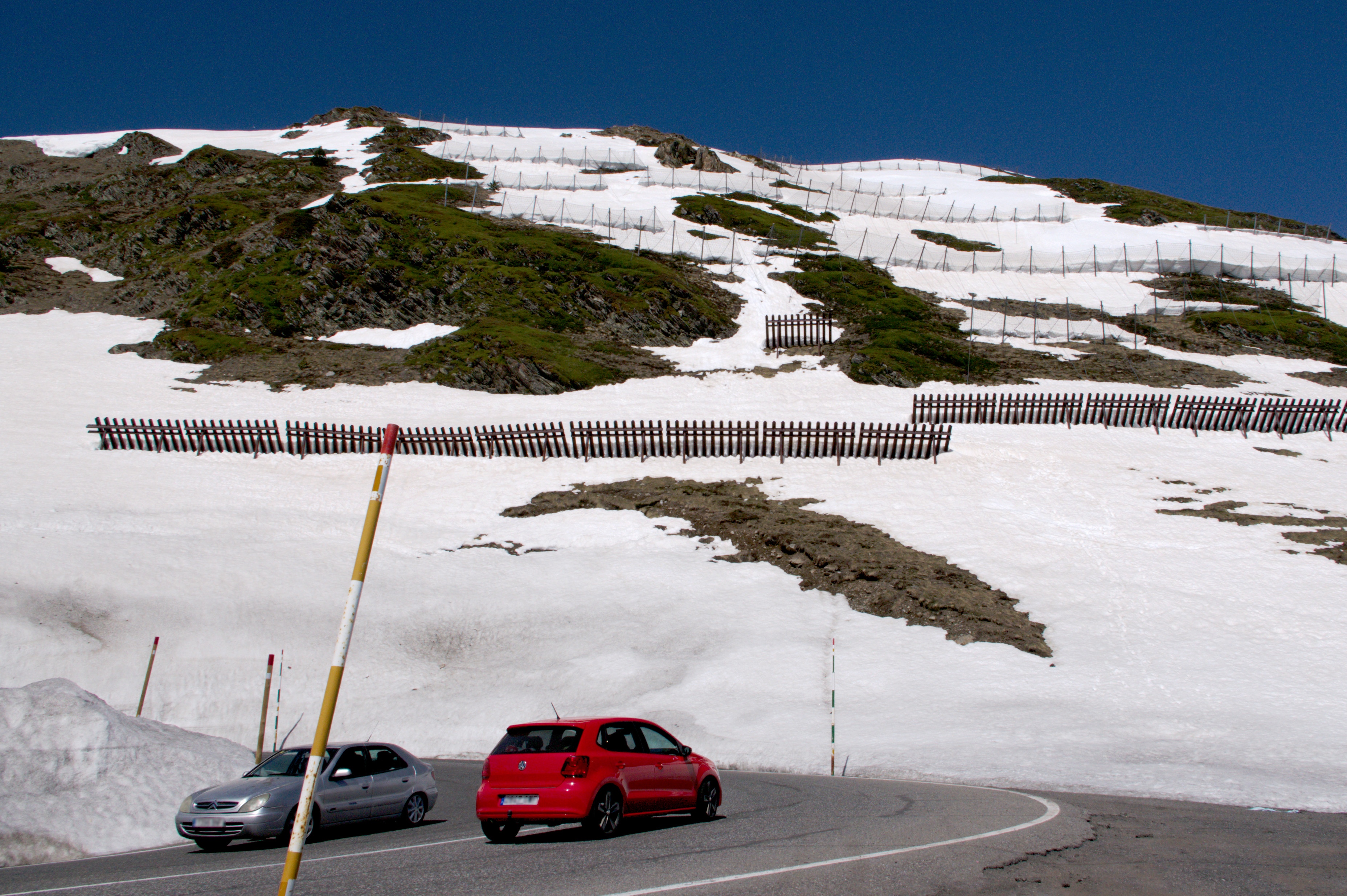 Road between Pas de la Case and Port d'Envalira